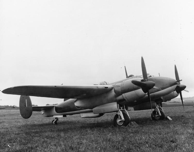 A Royal Air Force Bristol Buckingham B Mk.I (serial number KV303) of the Aeroplane and Armament Experimental Establishment, at Boscombe Down, Wiltshire (UK).